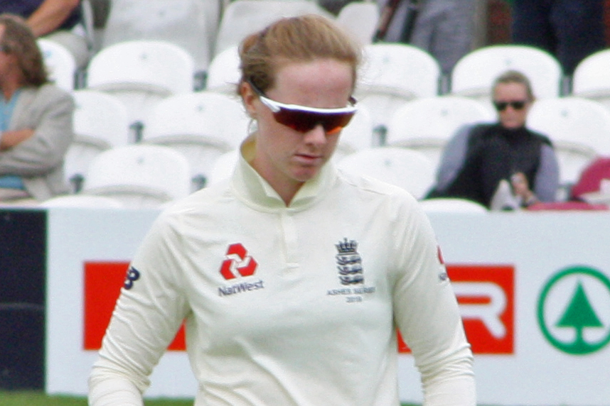 Kirstie Gordon during the a bowling spell in the 2019 Women's Ashes Test match at the County Ground, Taunton